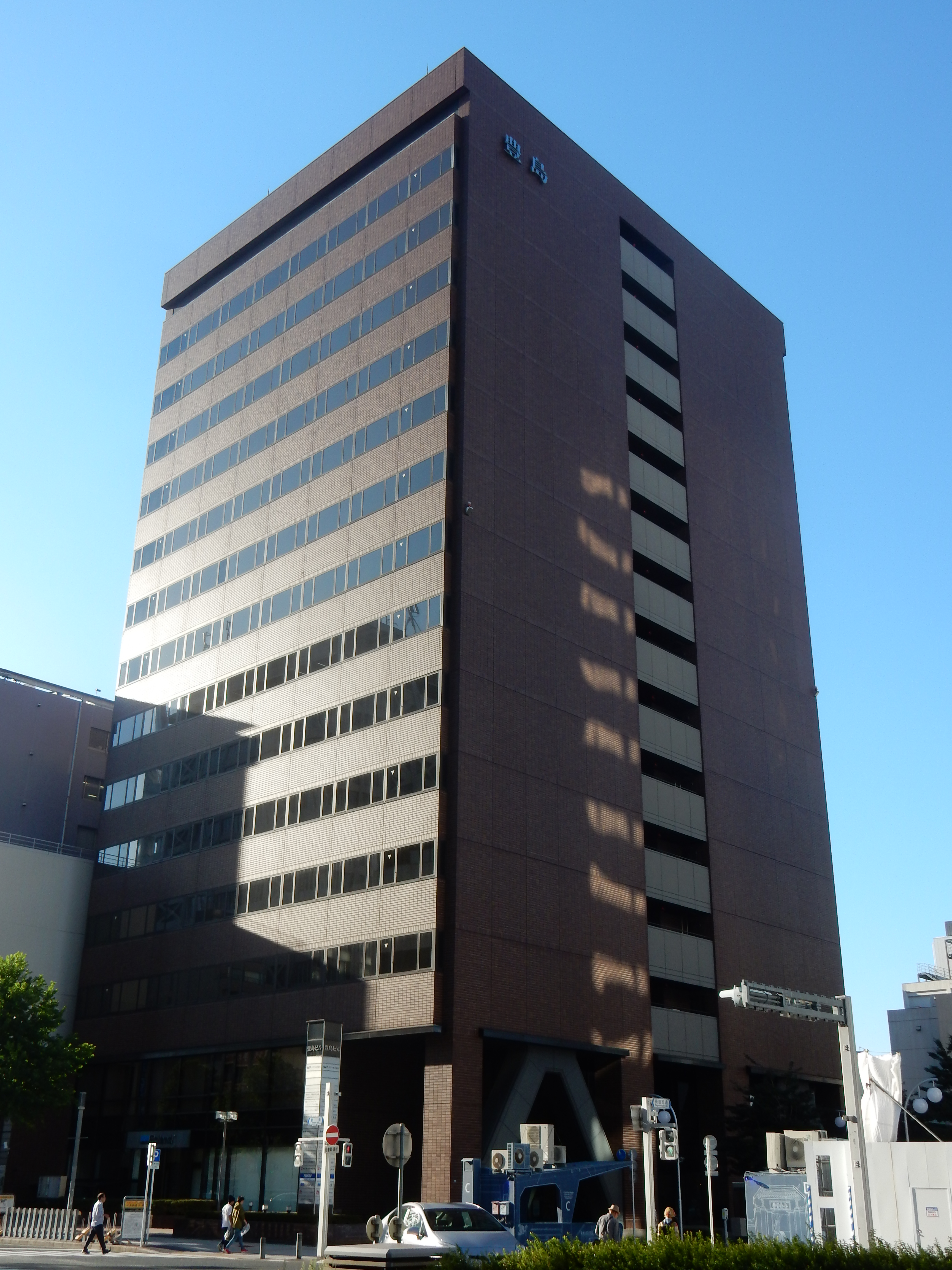 Toyoshima Building, located at 2-15-15 Nishiki, Naka, Nagoya, Aichi, Japan